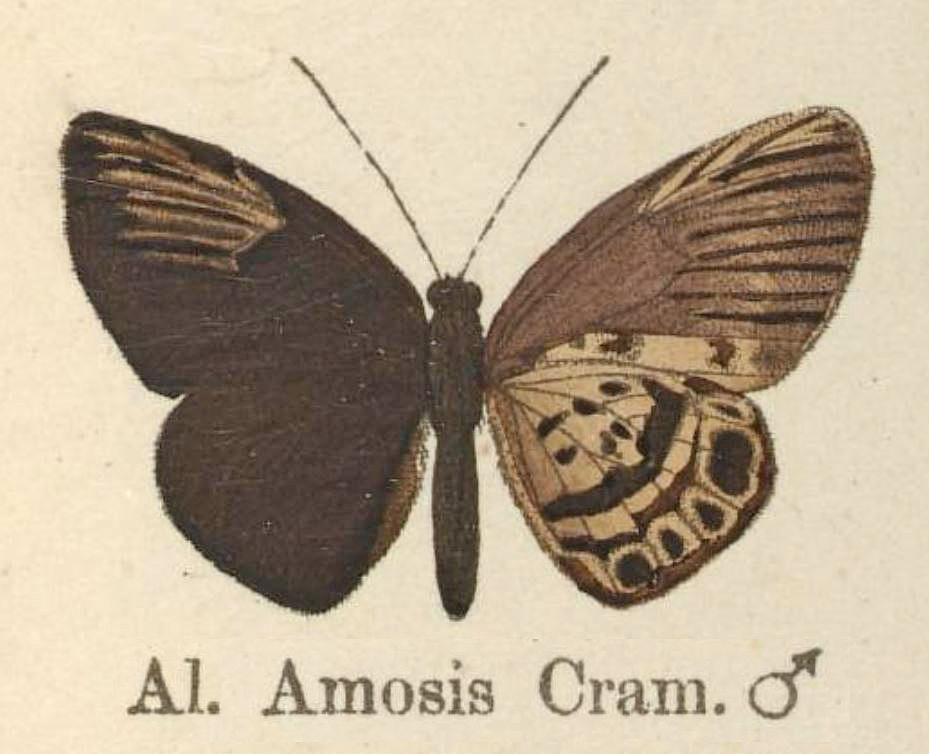 Alesa amosis (sic) in Staudinger, 1888.